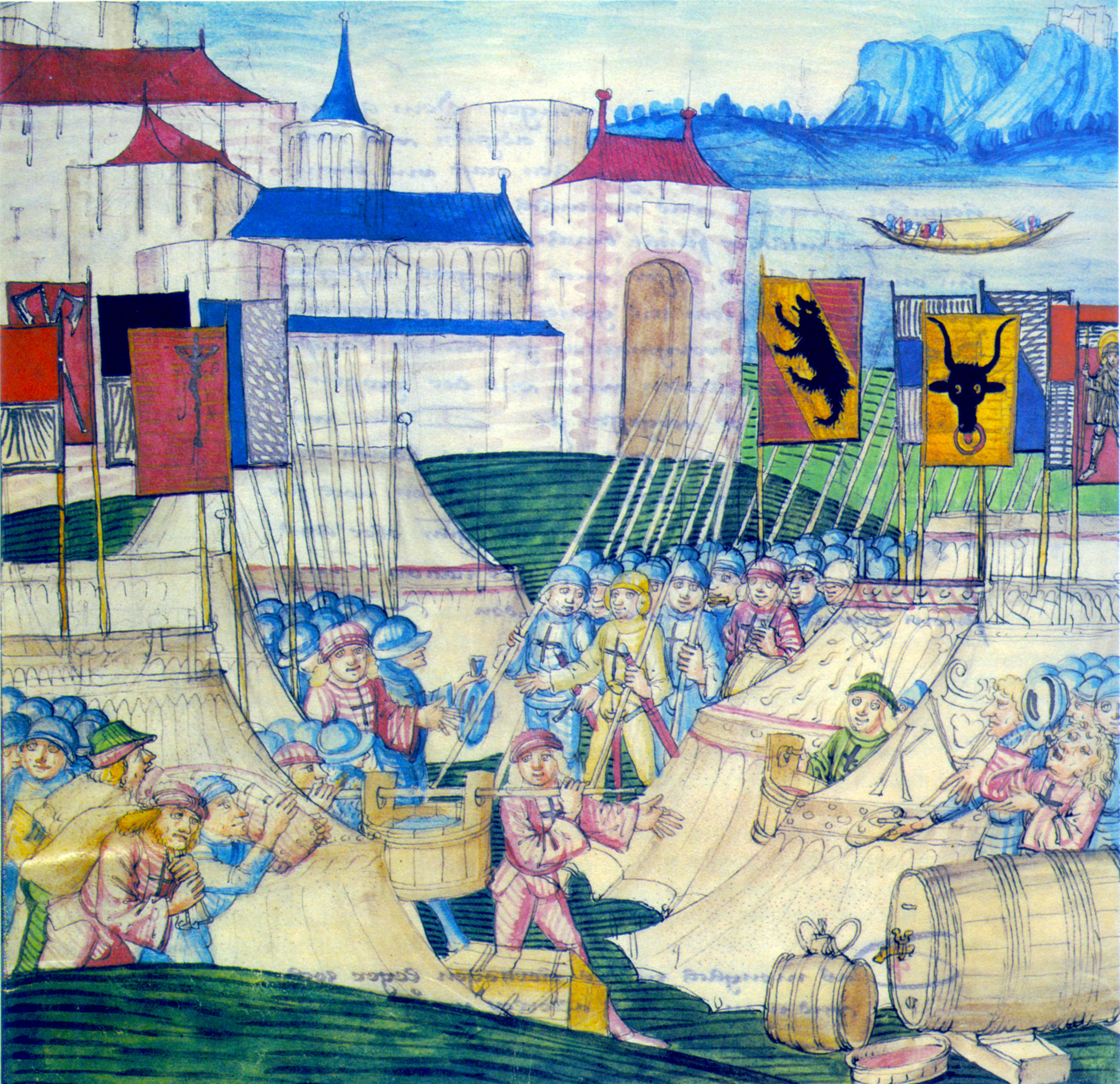 Troups of the Old Swiss Confederacy pillage the camp of Charles the bold, duke of Burgundy, after his defeat in the battle of Grandson, 2. March 1476